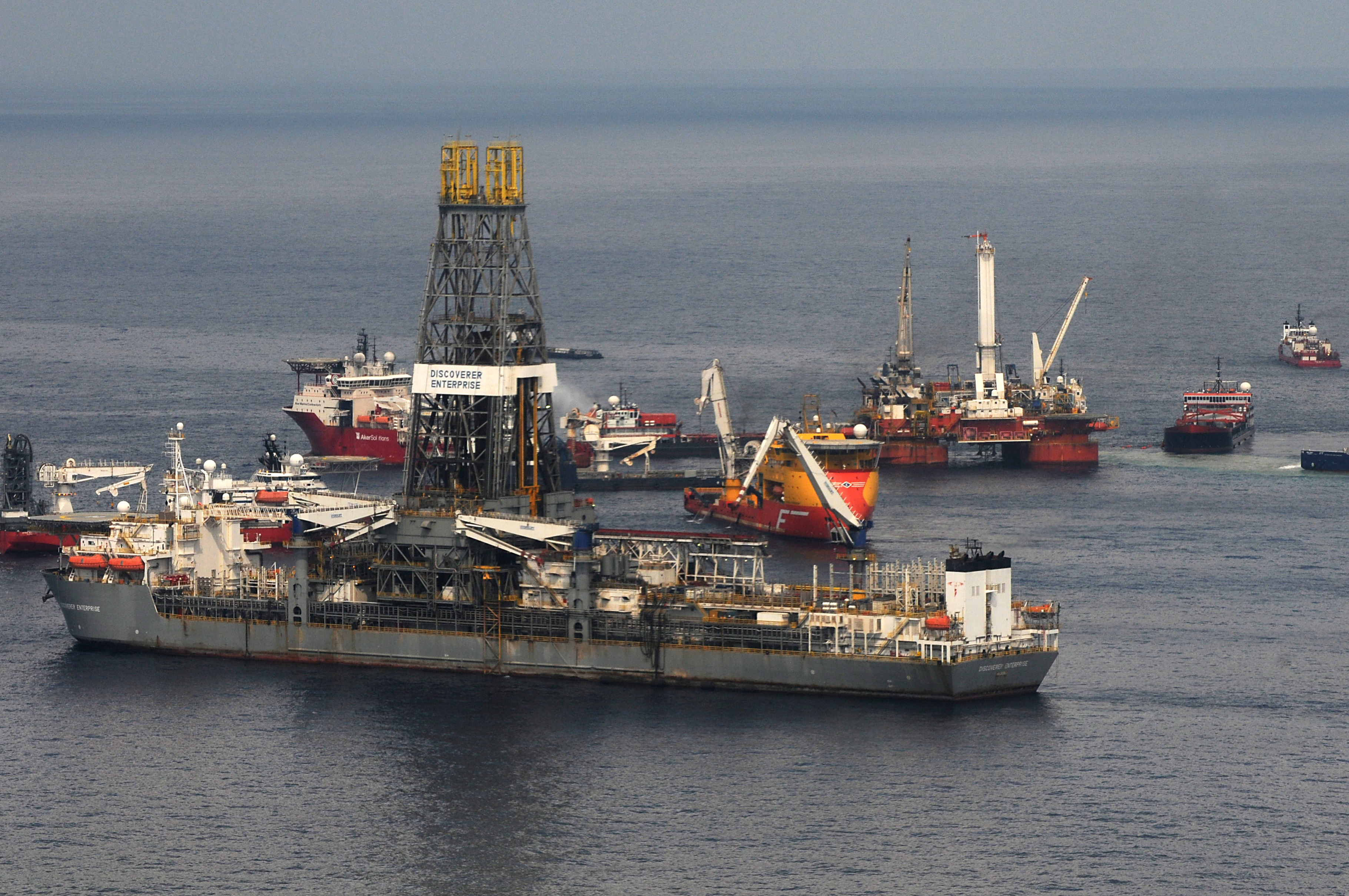 The mobile offshore drilling unit Q4000 holds position directly over the damaged Deepwater Horizon blowout preventer as crews work to plug the wellhead using a technique known as "top kill,". The procedure was unsuccessful in its intention to stem the flow of oil and gas and ultimately kill the well by injecting heavy drilling fluids through the blow out preventer on the seabed down into the well. The Discoverer Enterprise is in the foreground.